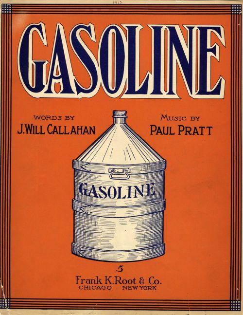 "Gasoline" (sheet music).